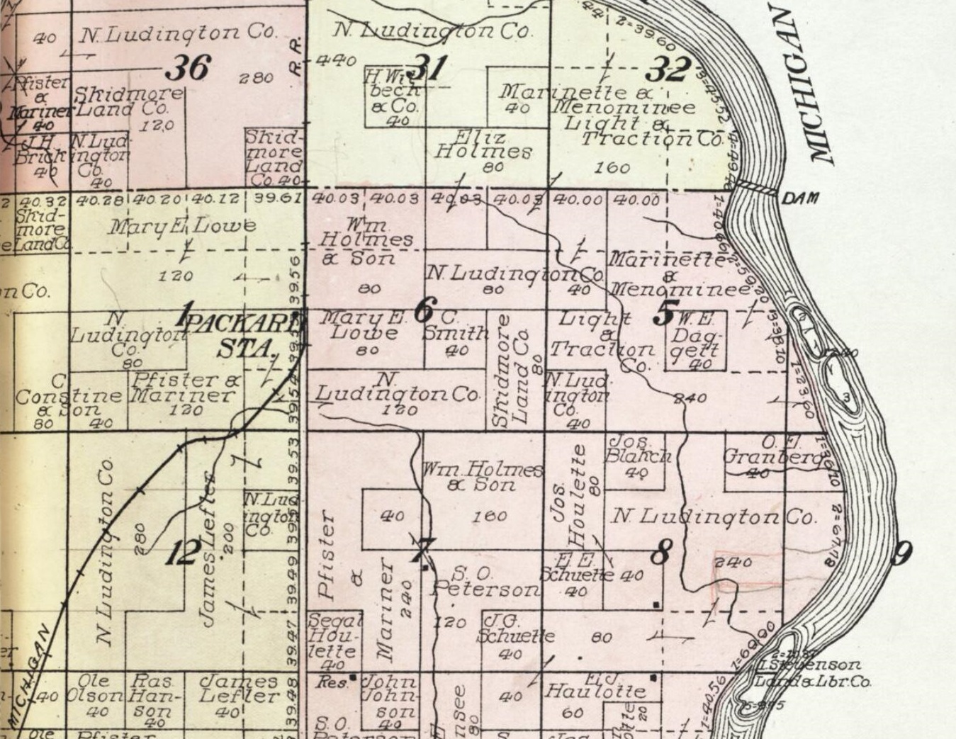 Map detail of Packard, Wisconsin. From Standard Atlas of Marinette County Wisconsin Including a Plat Book of the Villages, Cities and Townships of the County. 1912. Chicago: Geo. A. Ogle & Co.